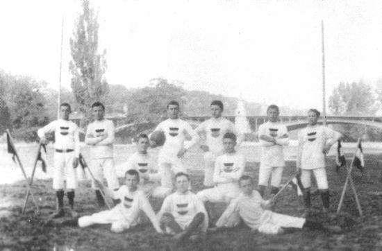 The football (soccer) team of the Kronen-Club Cannstatt, a predecessor of the VfB Stuttgart in 1898.